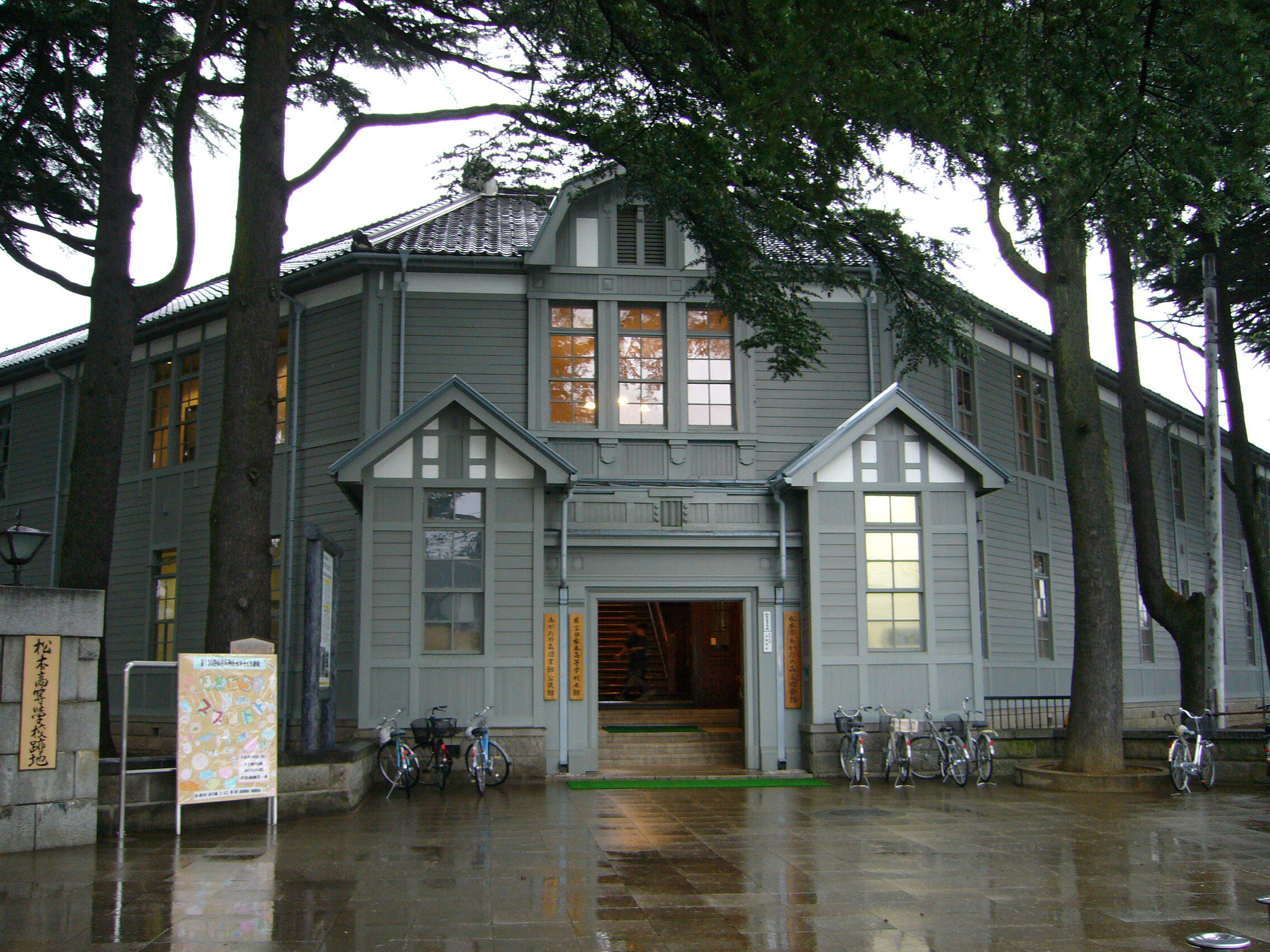 The Old Matsumoto Higher School in Matsumoto, Japan